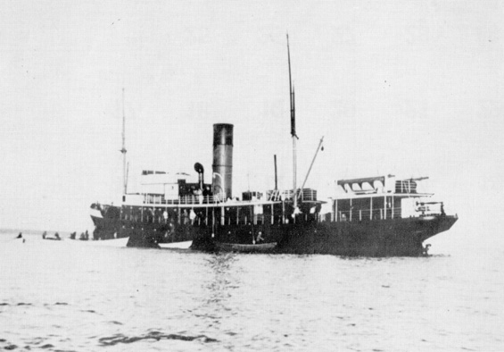 The SS Sagona of St. John, Newfoundland. Between 1912 and 1941